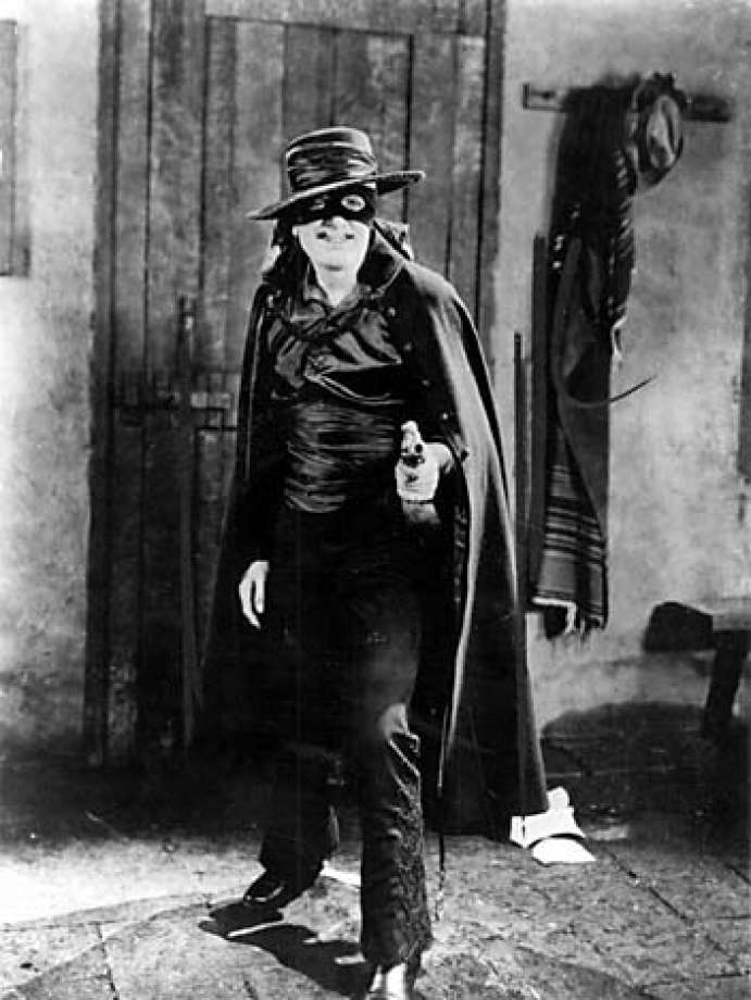 Still from the American adventure film The Mark of Zorro (1920) with Douglas Fairbanks, on page 95 of the October 16, 1920 Exhibitors Herald.